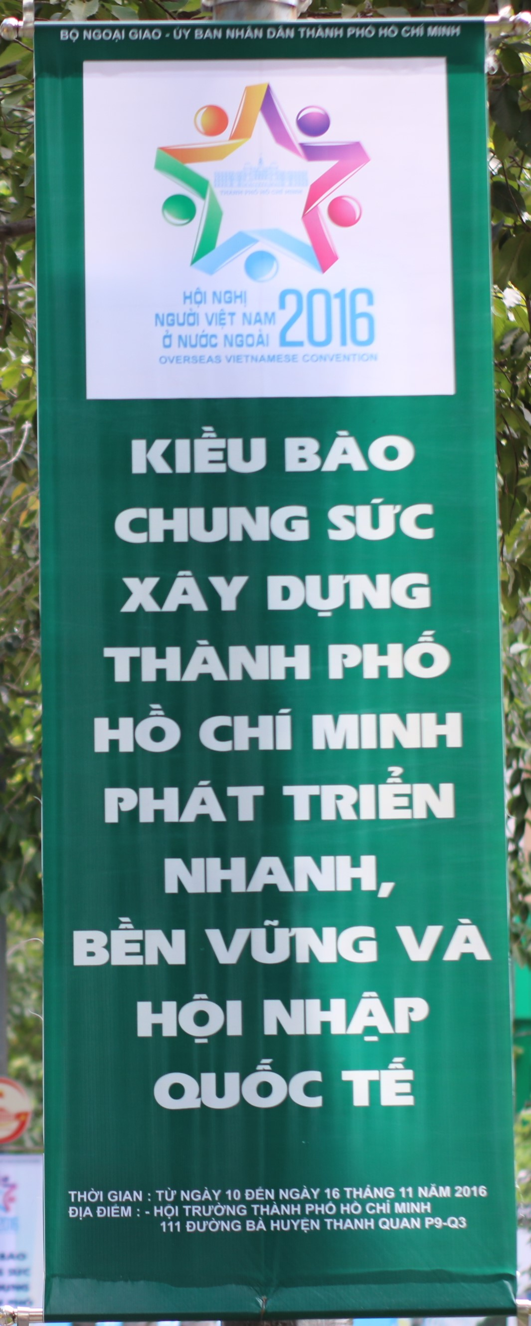 Bieu ngu